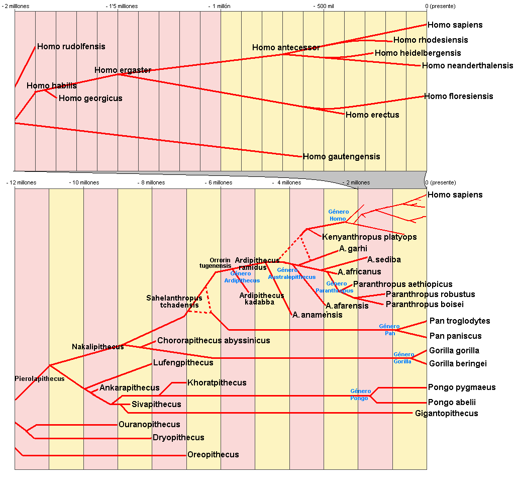 Filogenia hominidae family.